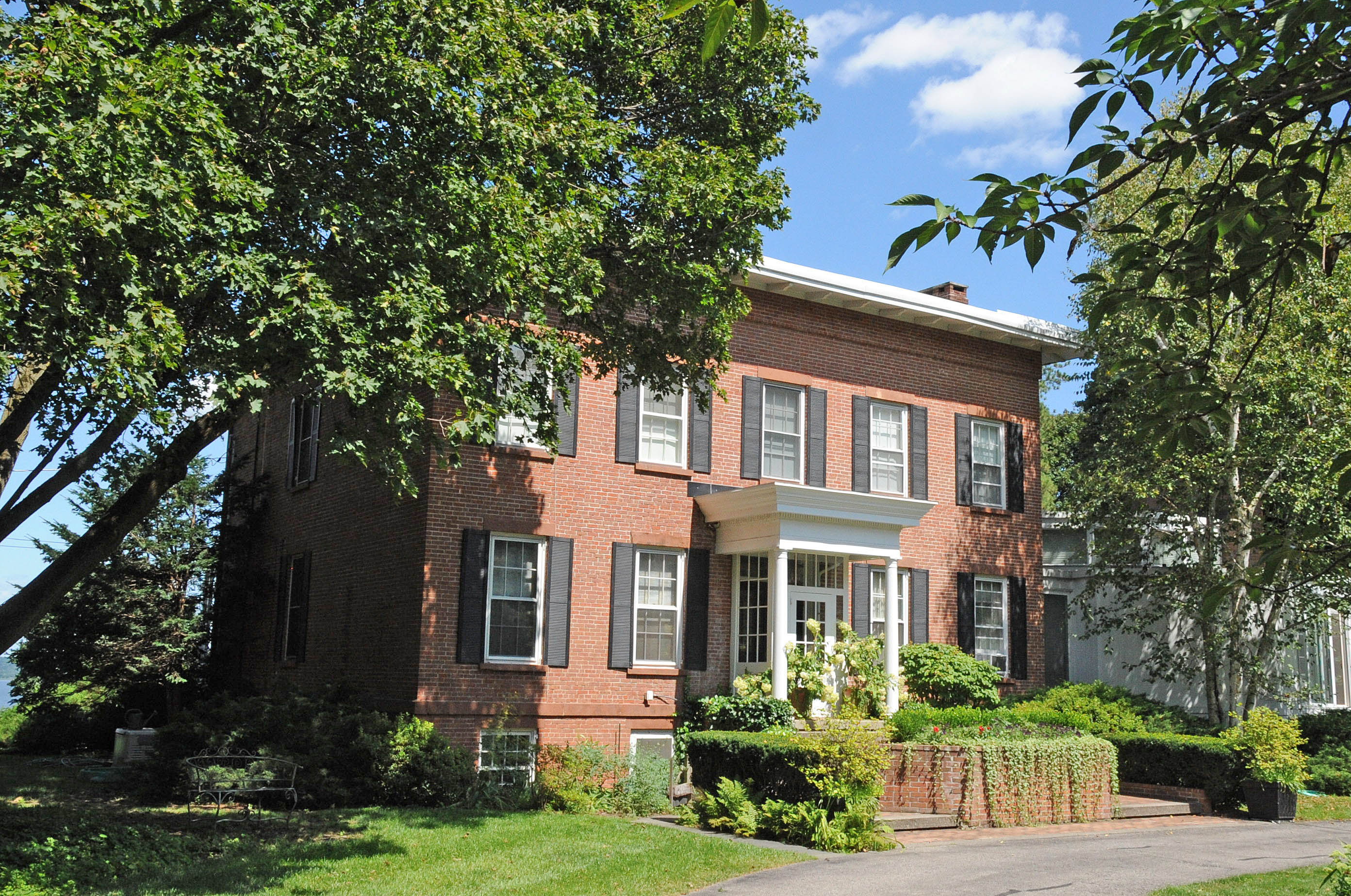 NATHANIEL ADAMS HOUSE- CIRCA 1844; THESE HOUSES ARE ON THE SITE OF A POTTERY WORKS NOW IN RUINS.